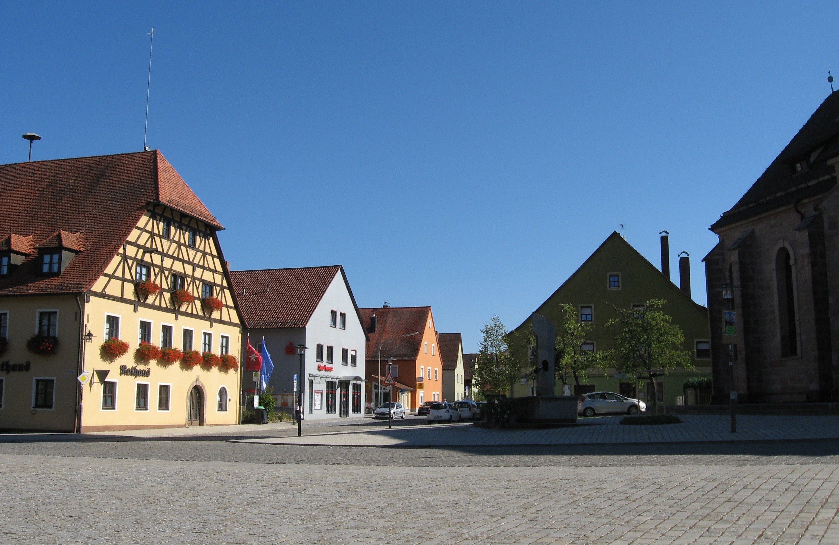 Pyrbaum (Bavaria, Germany), Center